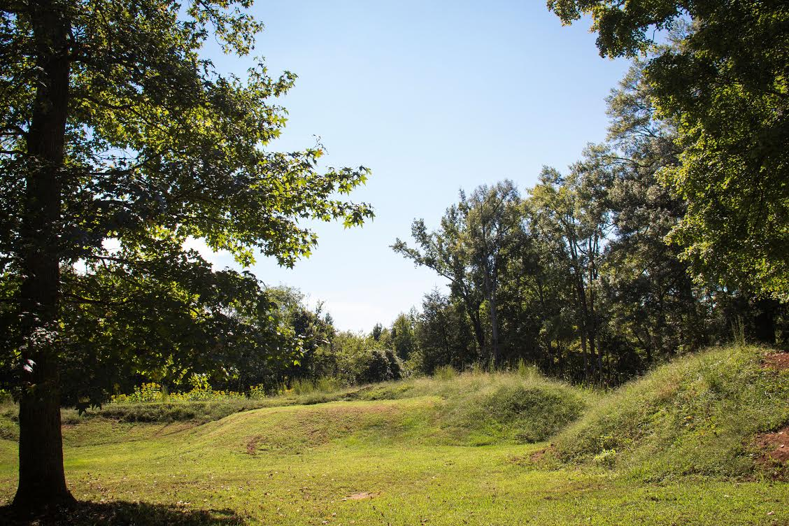 Park info Exploring with Park Packs and GPS units can lead you to many trails in the park